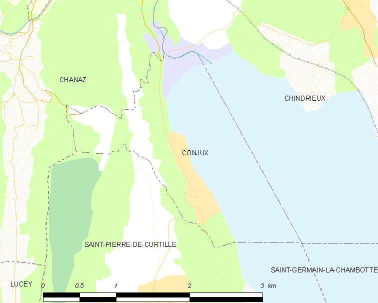 Map of French municipality